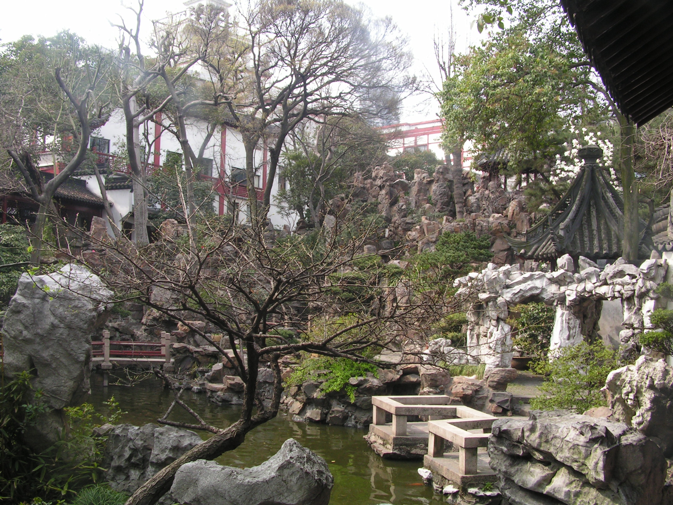 From the Yu Yuan Garden.